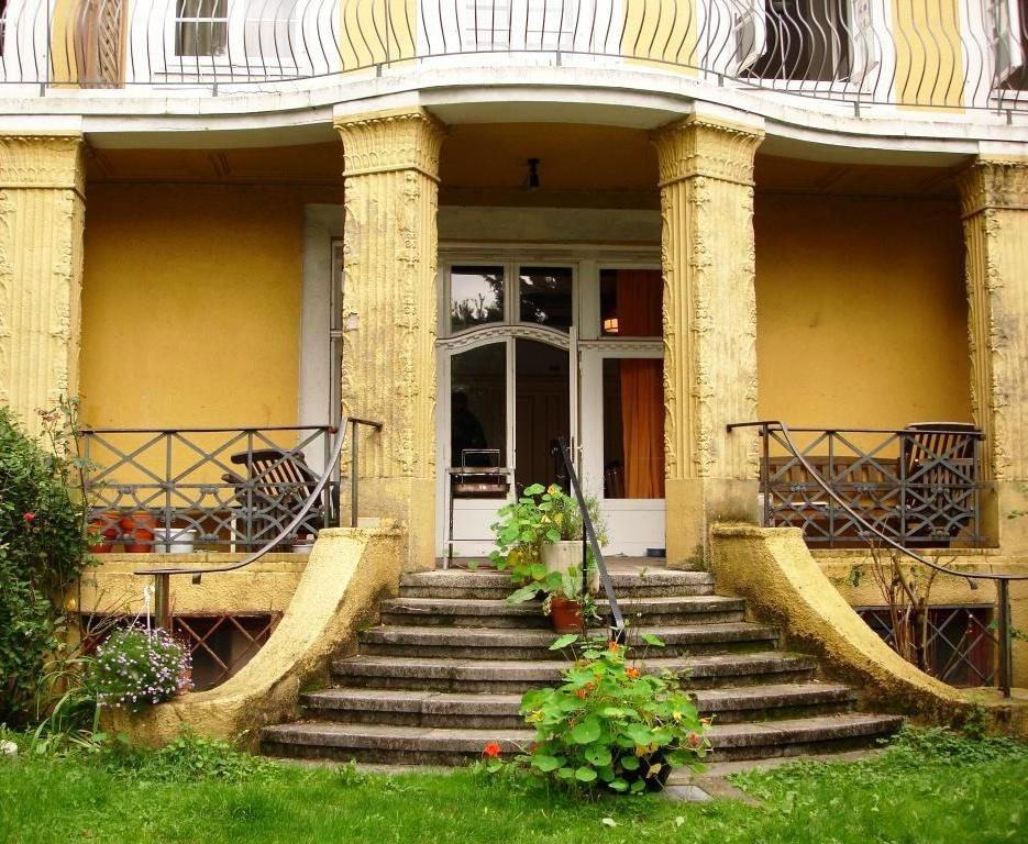 Pestalozzi-Stiftung Hamburg terrace in the residential house in the DIESTELSTRASSE